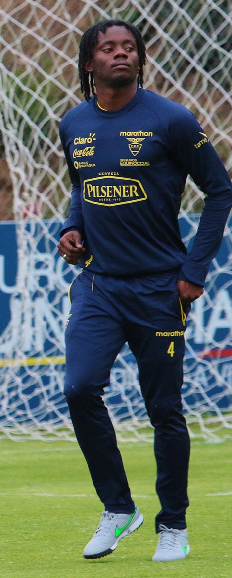 Juan Carlos Paredes